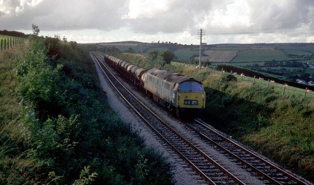 The afternoon Milk Train 1009 with 6a21 the 1640 St Erth to Acton milk nr Moorswater Liskeard . The milk train from St Erth used to run every day to London, 7 days a week. The milk traffic went by road after 1980. Now many of the creameries are also closed. No more milk by rail these days. While the tanks might look dirty they were glass lined and the milk was moved like this for many years .